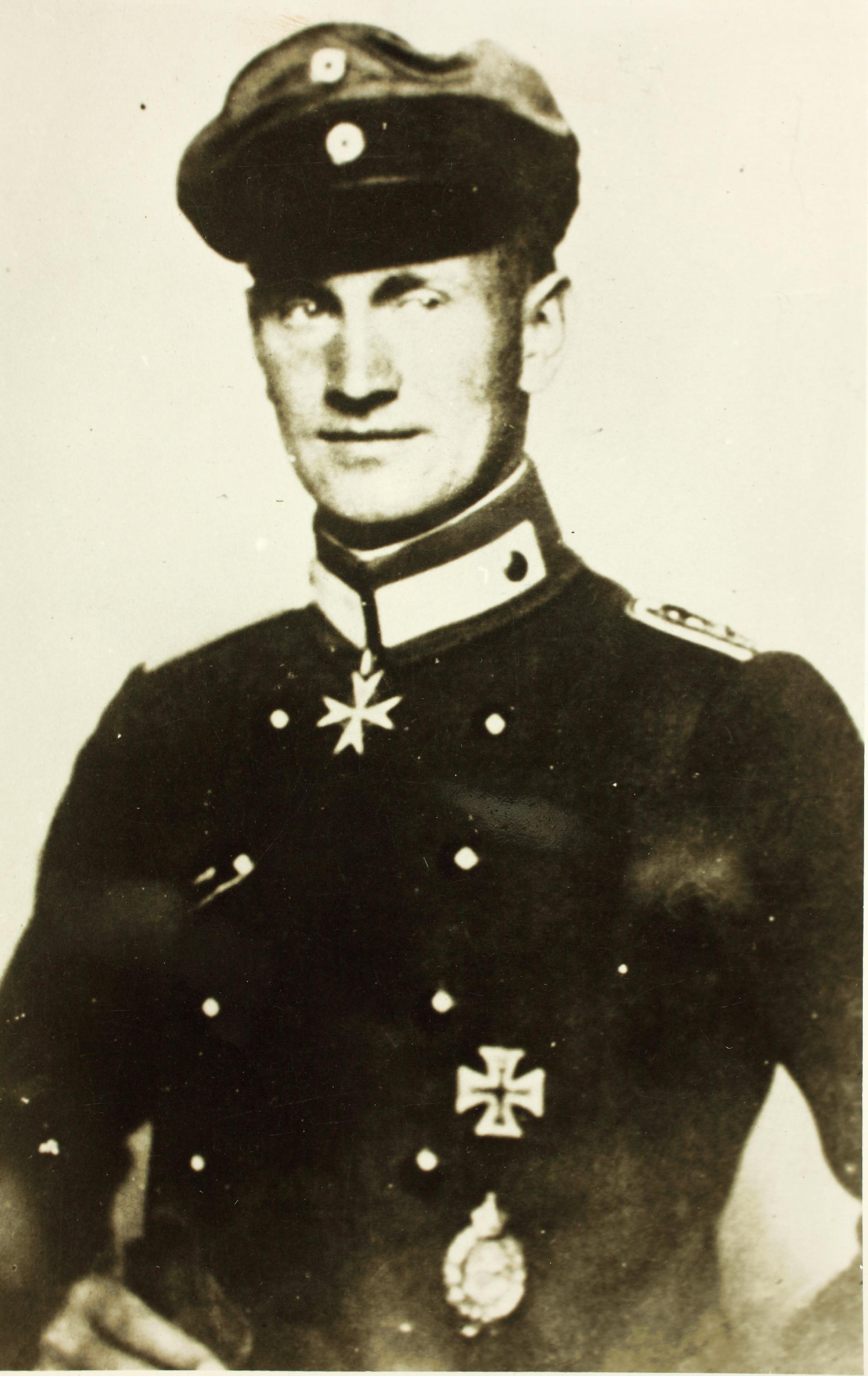 World War One German Aviator Haupt. Bruno Loerzer Catalog #: 10_0017317 Title: World War One German Aviator Haupt. Bruno Loerzer Date: 1914-1918 Additional Information: World War One German Aviator Haupt. Bruno Loerzer Tags: World War One German Aviator Haupt. Bruno Loerzer, World War One German Aviator Haupt. Bruno Loerzer, 1914-1918 Repository: San Diego Air and Space Museum Archive